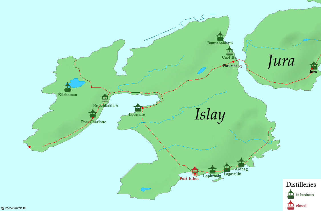 Islay distilleries updated 2011. Based on File:Distilleries_Islay.png